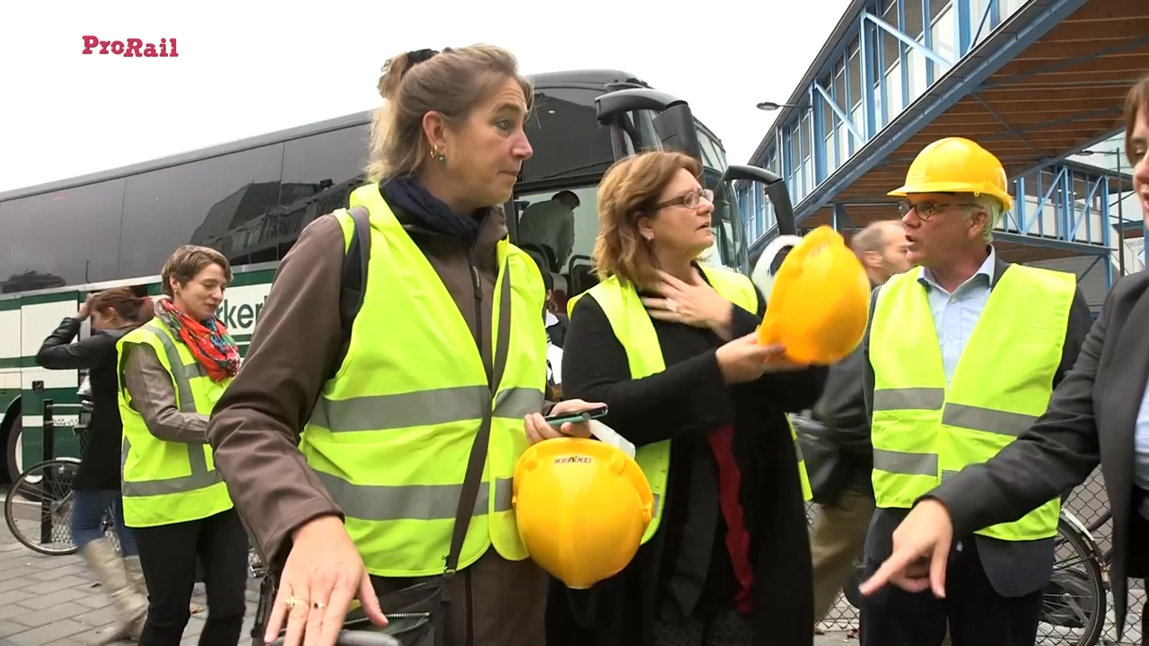 Tweede Kamerleden leren over de spoorsector tijdens een bezoek in Utrecht